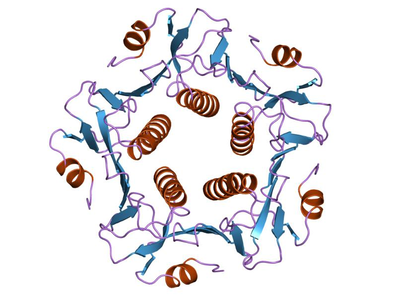 Cartoon representation of the molecular structure of protein registered with 1fgb code.